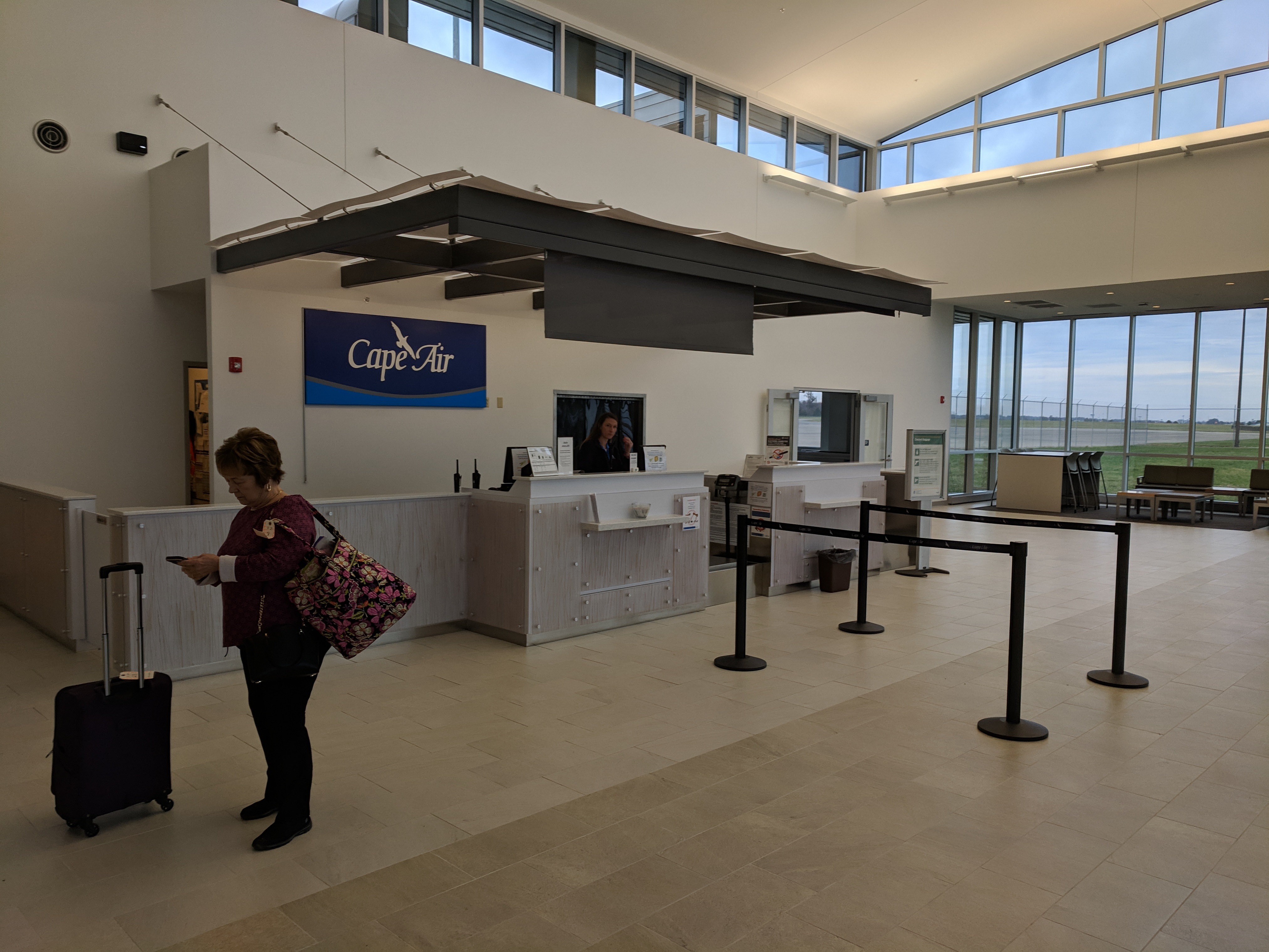 The Cape Air check-in counter at Veterans Airport of Southern Illinois.